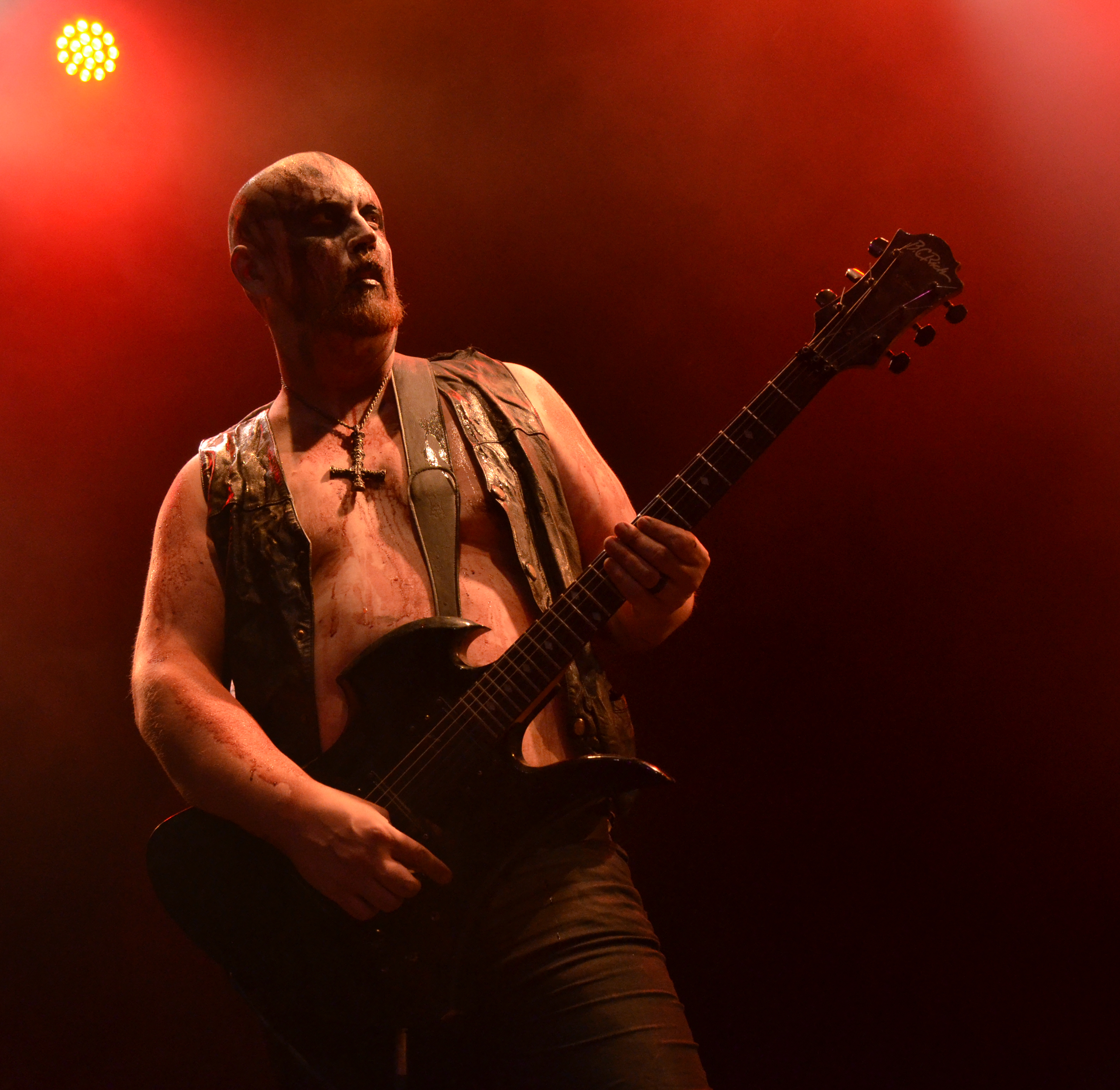 Horna performing at the Black Arts Ceremony, at the CCO, in Villeurbanne ( France ), the 4th of October 2014.